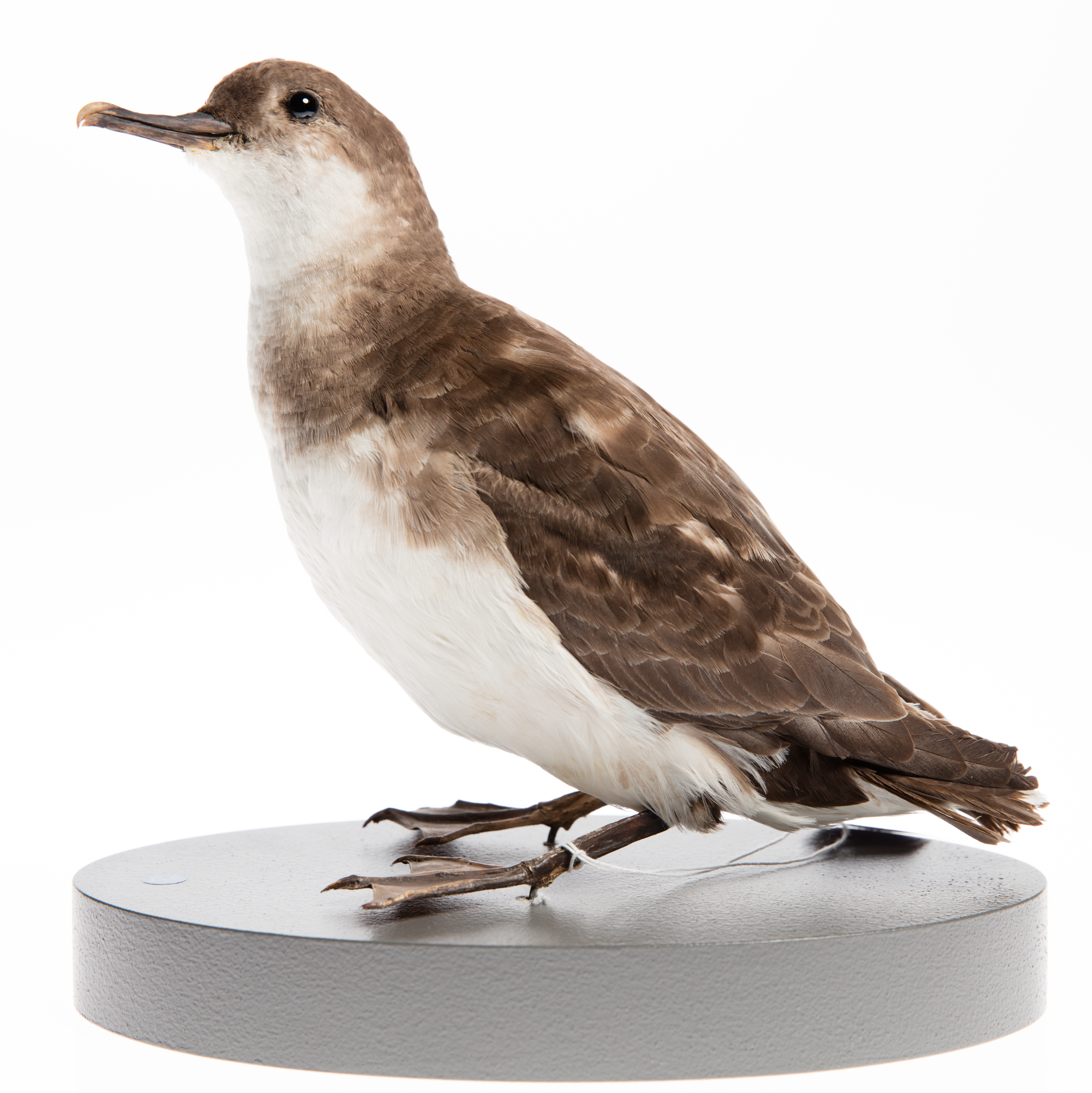 Fluttering shearwater (Puffinus gavia) mount from the collection of the Auckland Museum